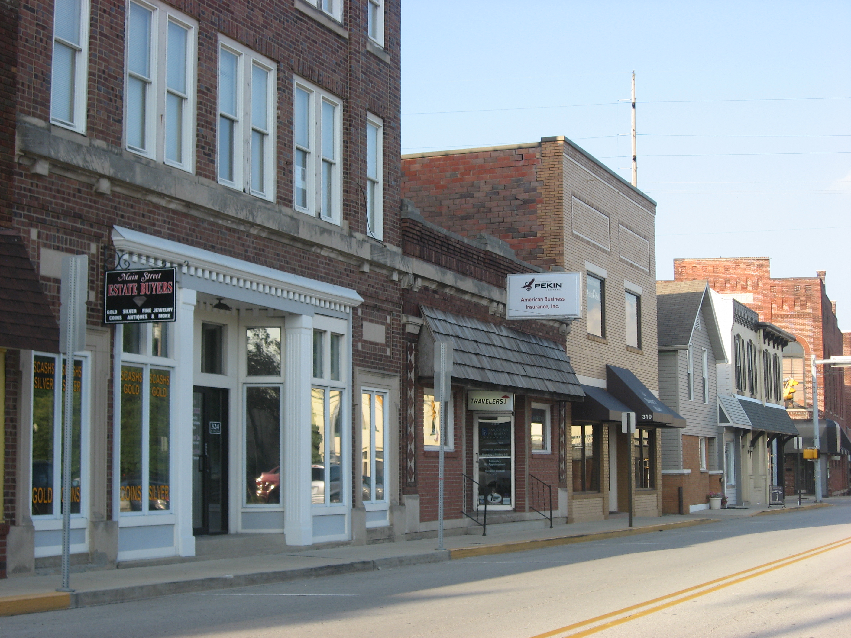 Buildings on the northern side of the 300 block of W. Main Street in downtown Greenwood, Indiana, United States. This block is part of the Greenwood Commercial Historic District, a historic district that is listed on the National Register of Historic Places.